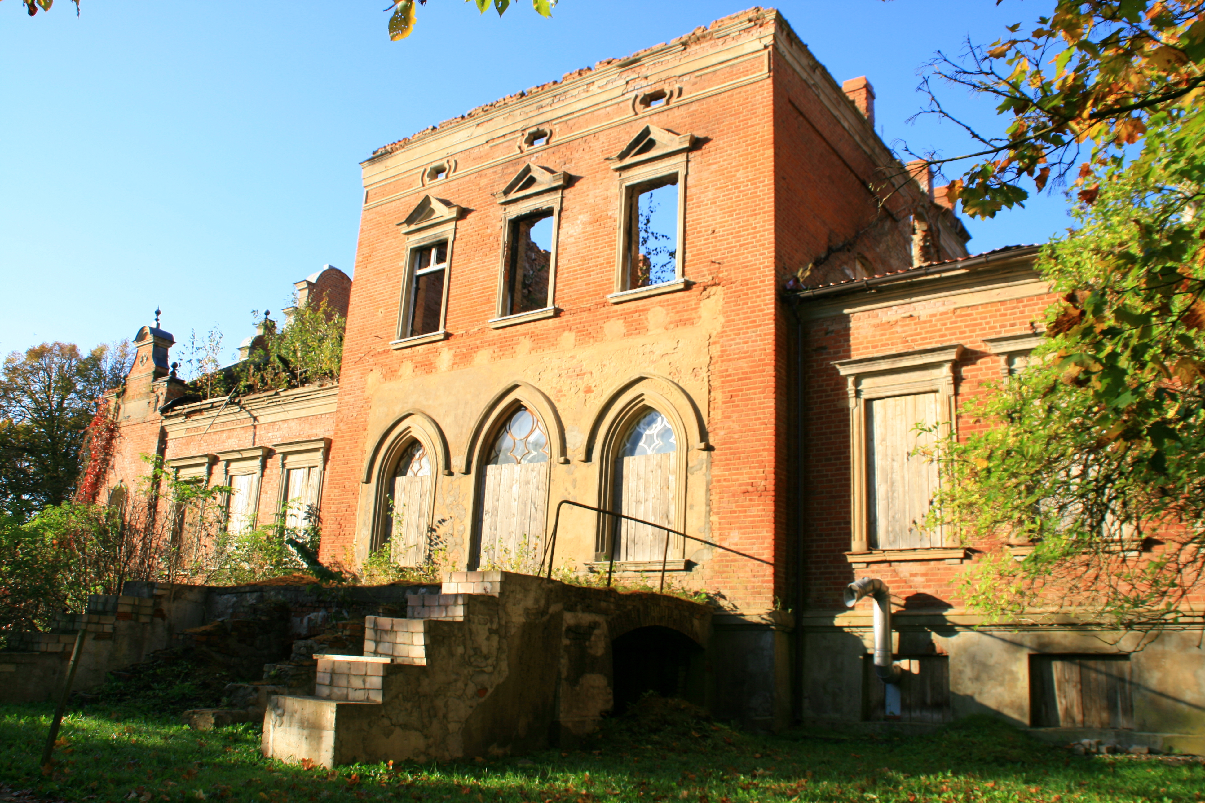 Reģi ManorLatviešu: Reģu muižas pils